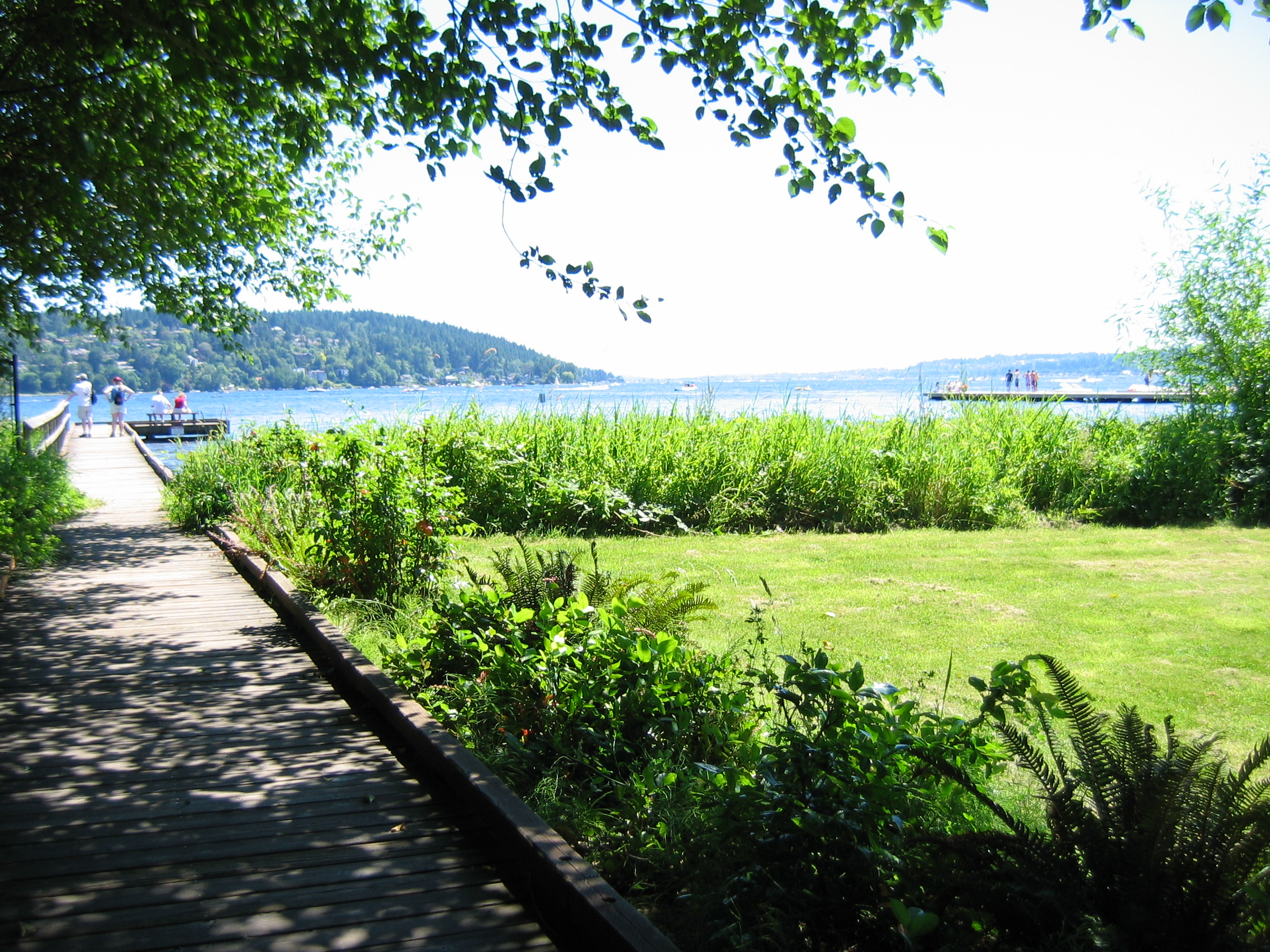 Photo of Lyon Creek Park, at the Lake Washington access point, Lake Forest Park, Washington